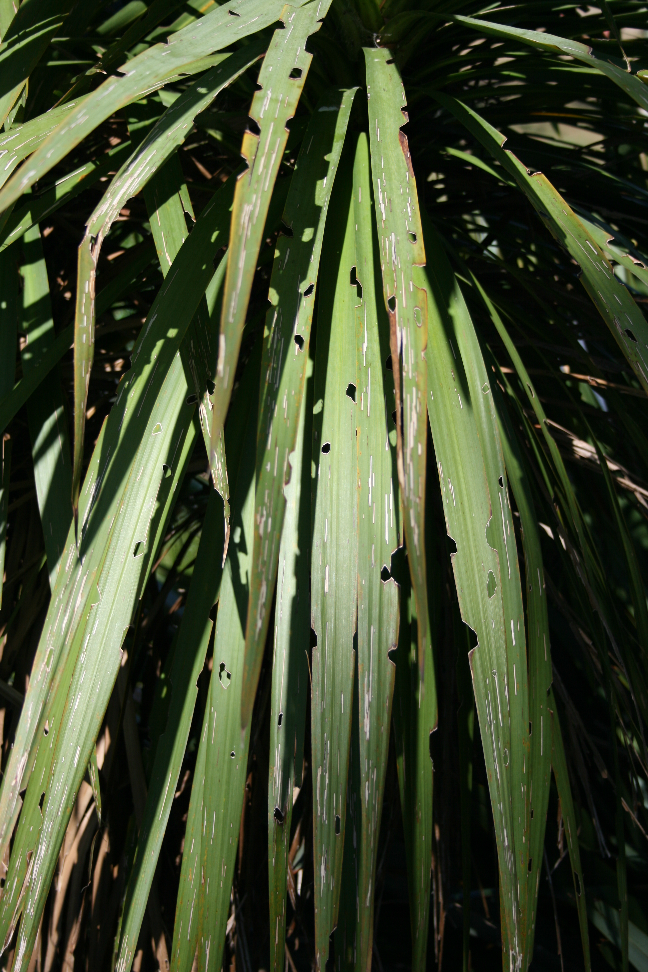 Foliage of Cordyline australis, (Cabbage tree), showing damage and notches caused by the larva of the cabbage tree moth Epiphryne verriculata. Plant growing in cultivation at Auckland Botanic Gardens, Manukau City, New Zealand